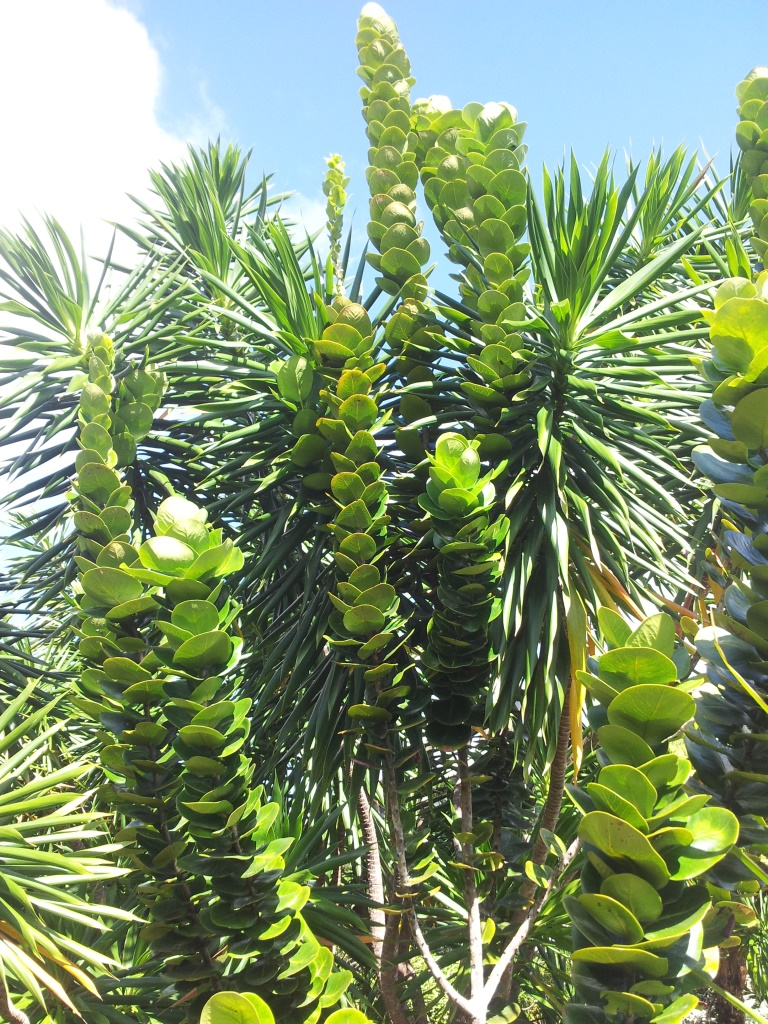 Diospyros revaughanii ebony - MonVert Arboretum